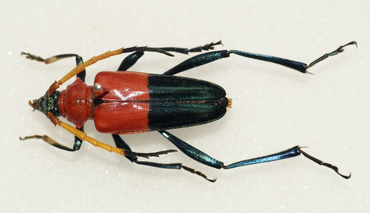 Cerambycidae - In collection